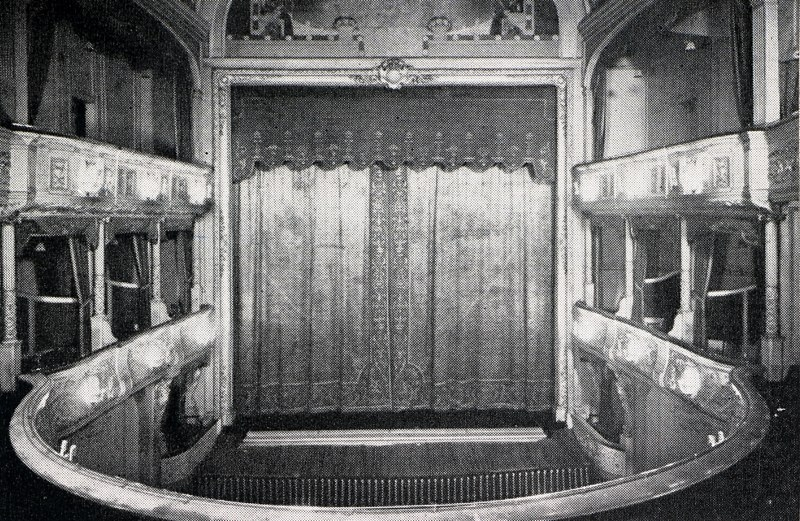 Old Savoy Theatre, 1881.